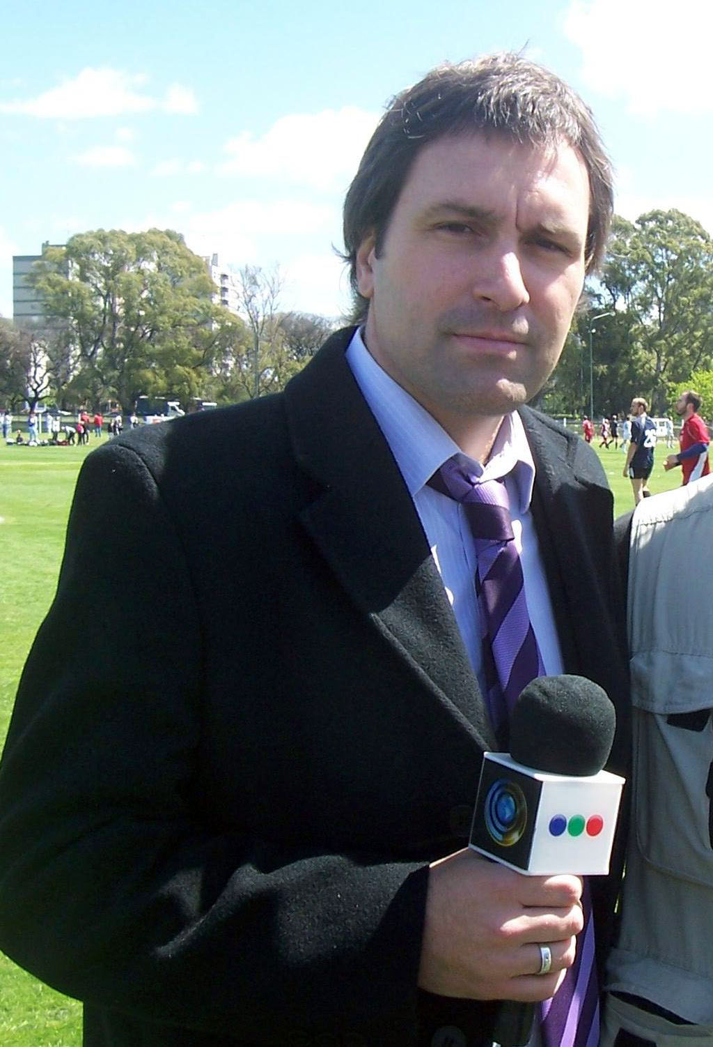 Guillermo Panizza from Telefé Noticias at the World Gay Cup in Buenos Aires.